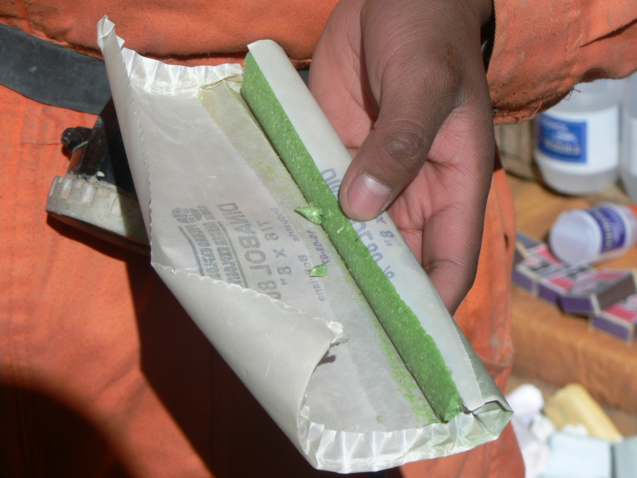 Dynamite as sold at the miners market in Potosí, Bolivia (2007).